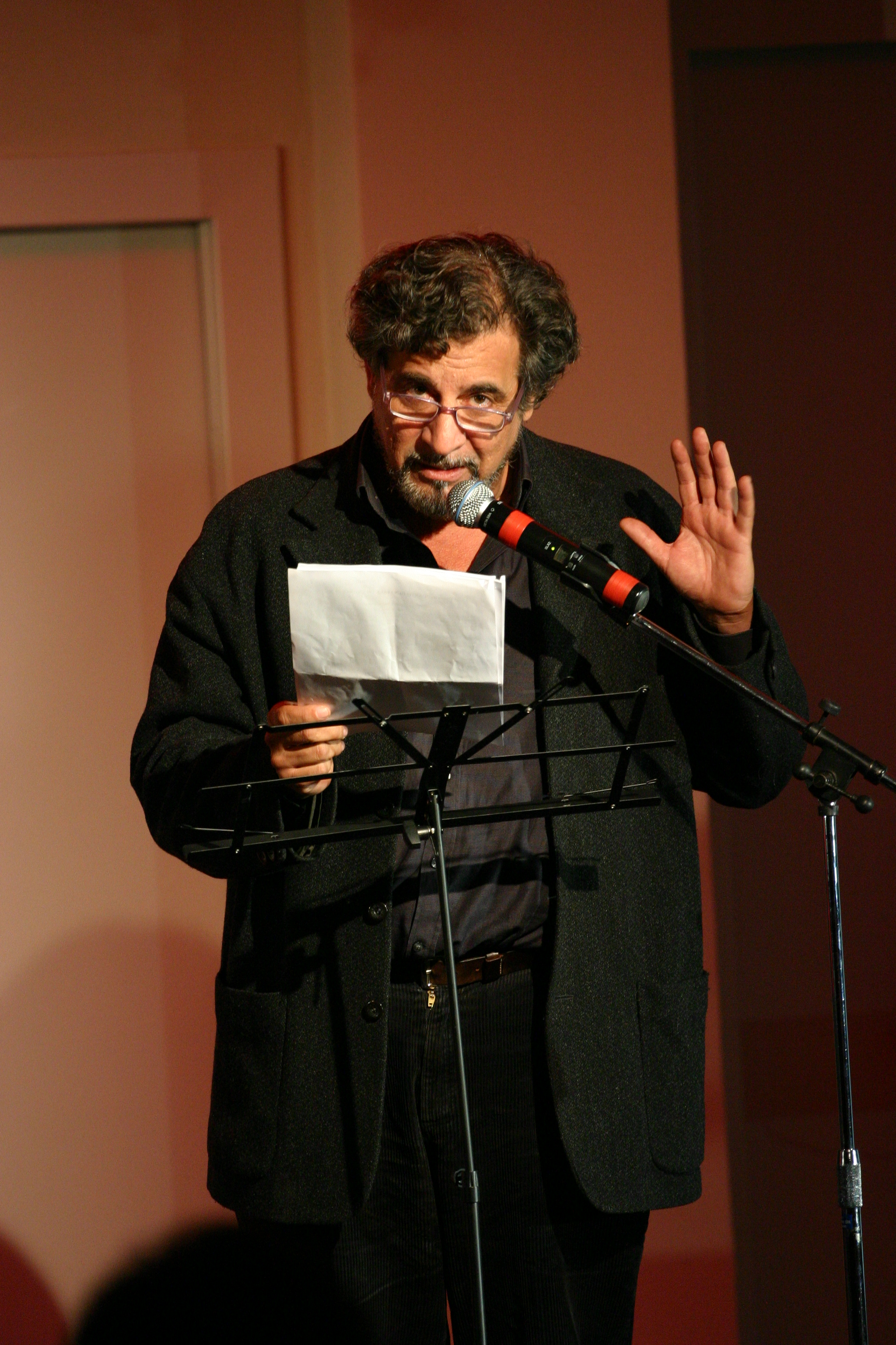 actor Edoardo Siravo at Campus Bio-Medico University in Rome